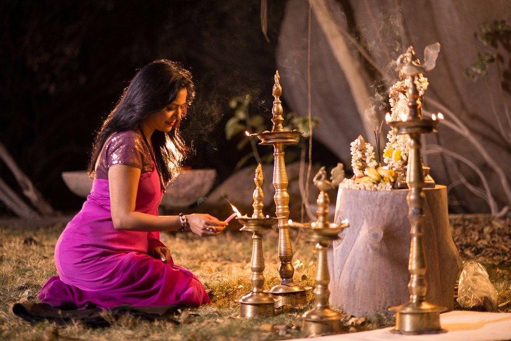 Singer Sunitha featuring in Sri Rama Chandra Krupalu album